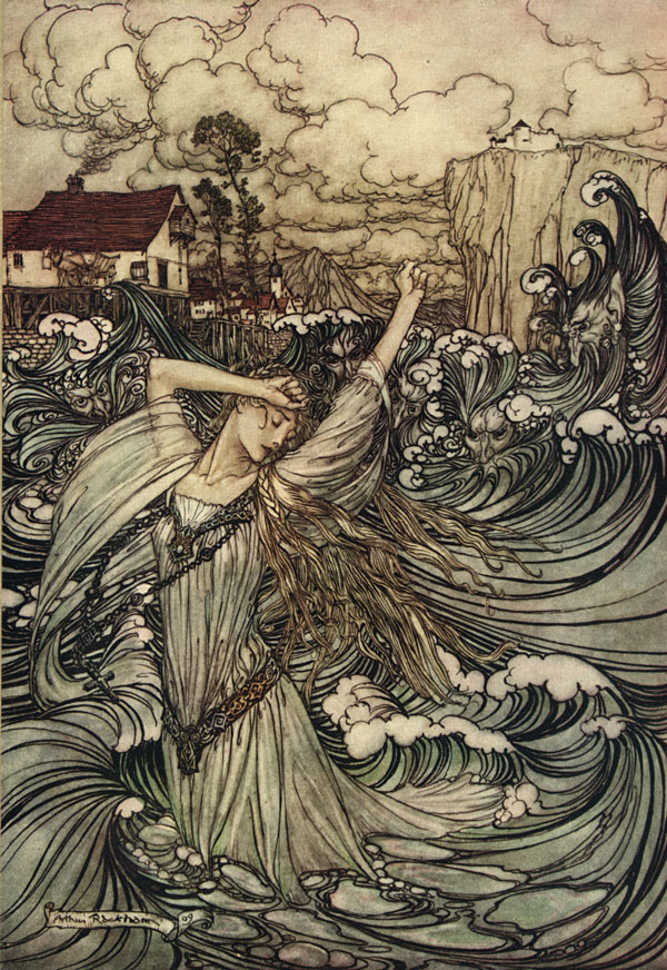 The fourteenth illustration by Arthur Rackham for Friedrich de la Motte Fouqué's 1909 publication, Undine. It had the following caption: Soon she was lost to sight in the Danube.